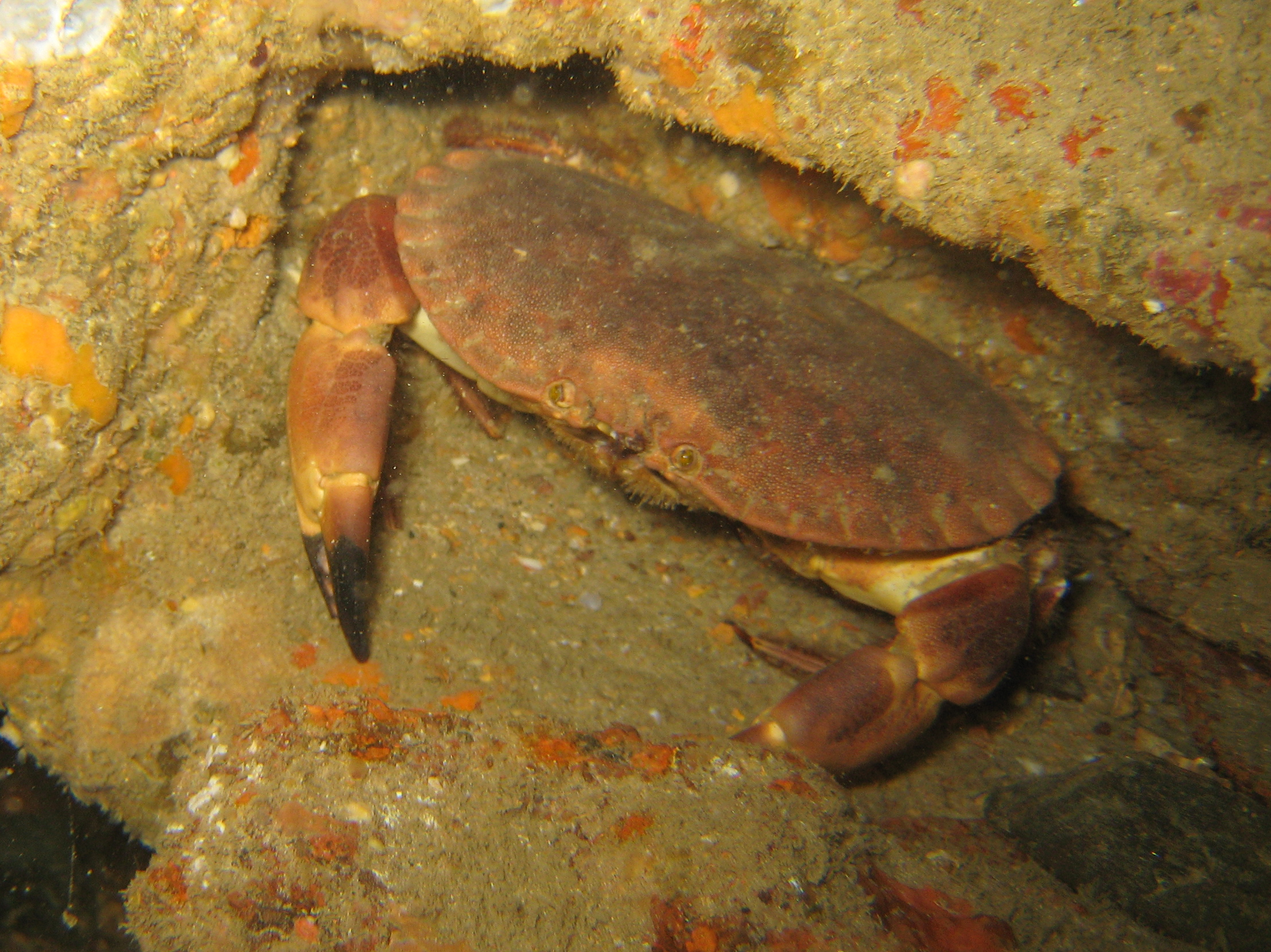 Cancer pagurus in Carantec.